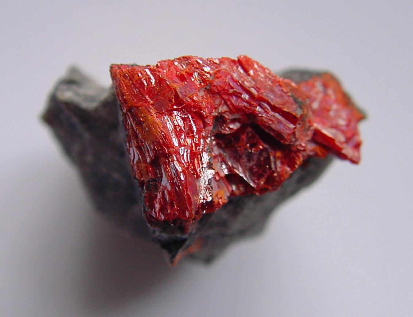 Getchellite from Khaidarkan, Fergana Valley, Osh Oblast, Kyrgyzstan. Specimen size is 3.6 cm, with a 2.4 cm patch of getchellite on a grey matrix.